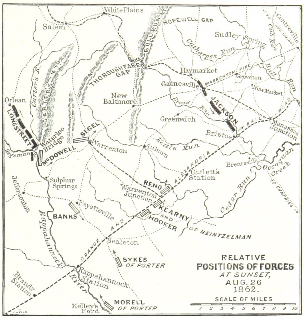 Positions of forces in the Manassas Station Operations of the American Civil War at sunset on 26 August